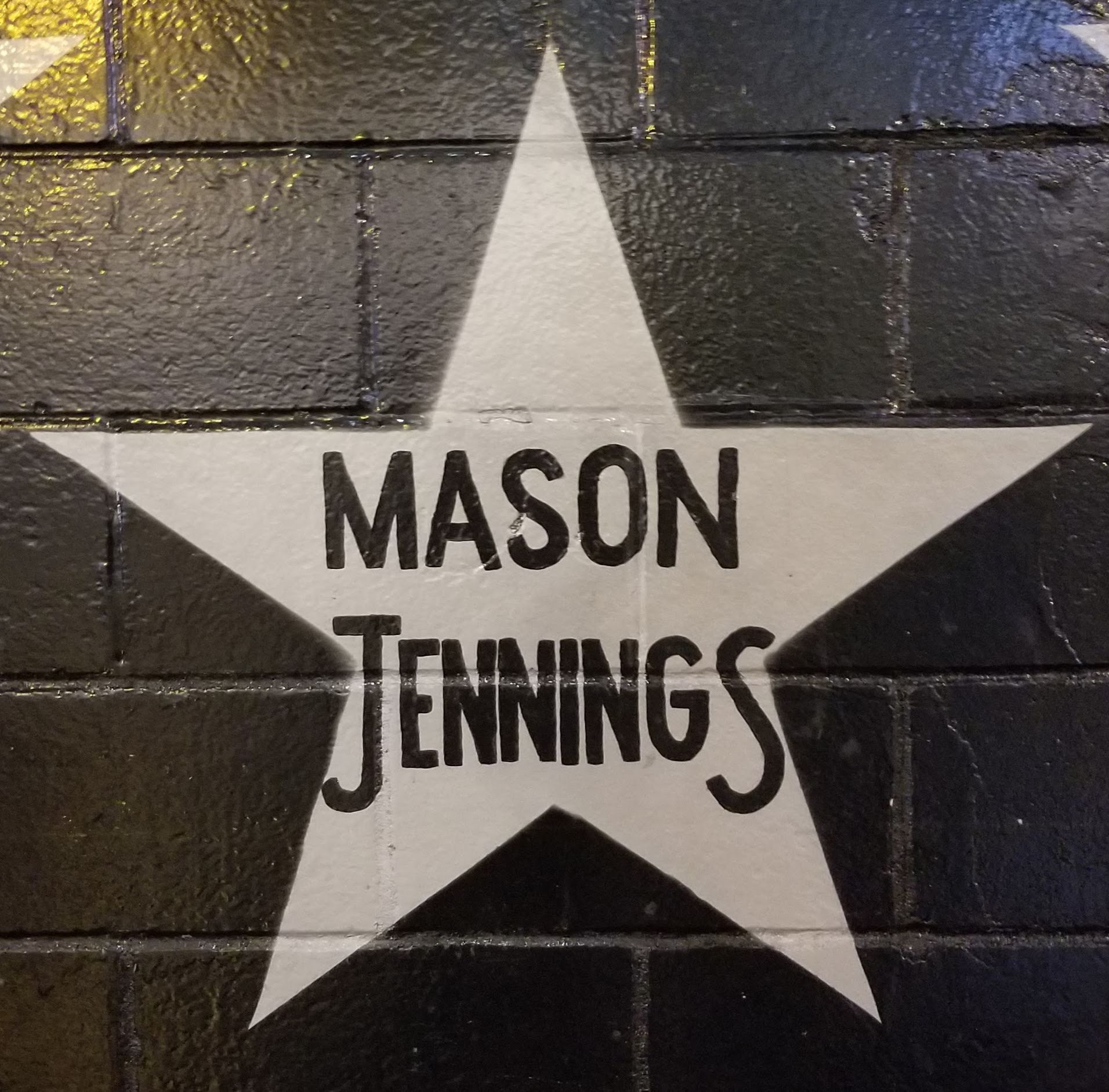 Star representing musician Mason Jennings on the outside mural of the Minneapolis nightclub First Avenue